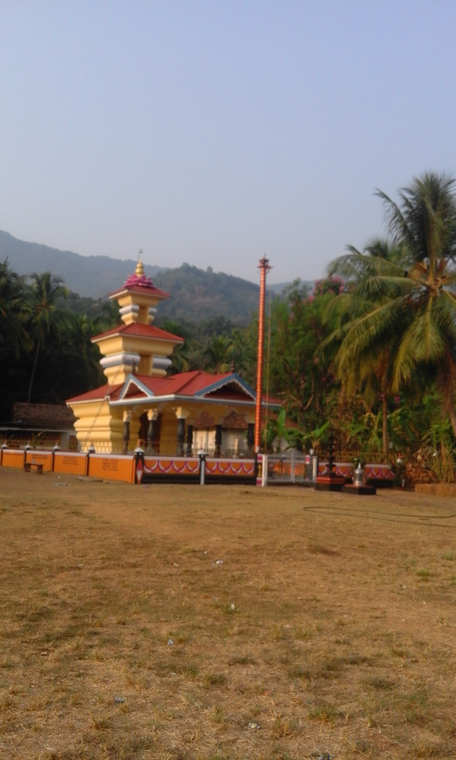 Kannur District, Kerala, India